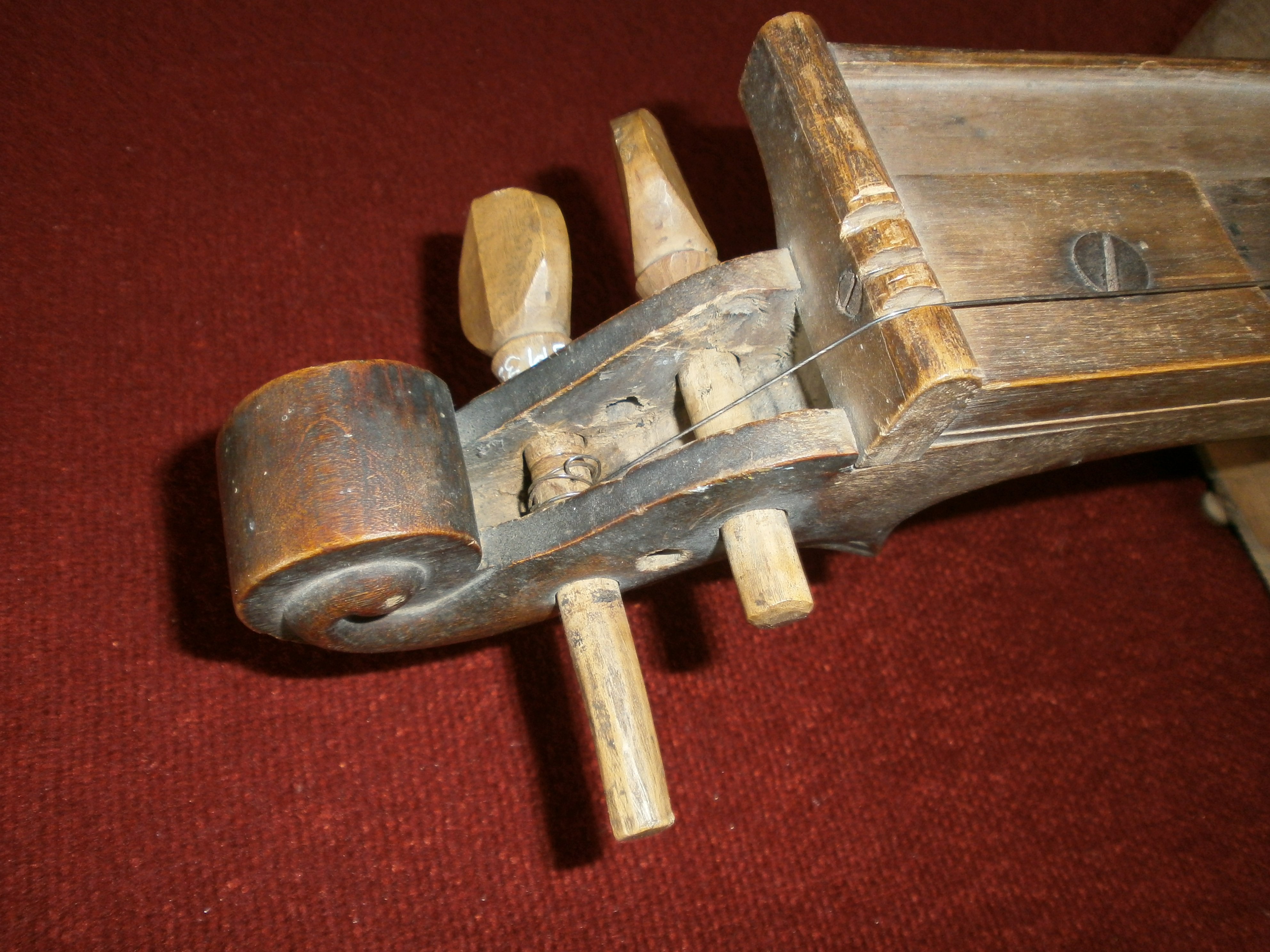 Psalmodicon, detail.